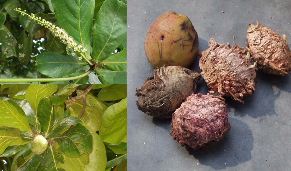 kath badams flower & fruits. --Mamun2a 11:02, 16 September 2006 (UTC) Terminalia catappa L.